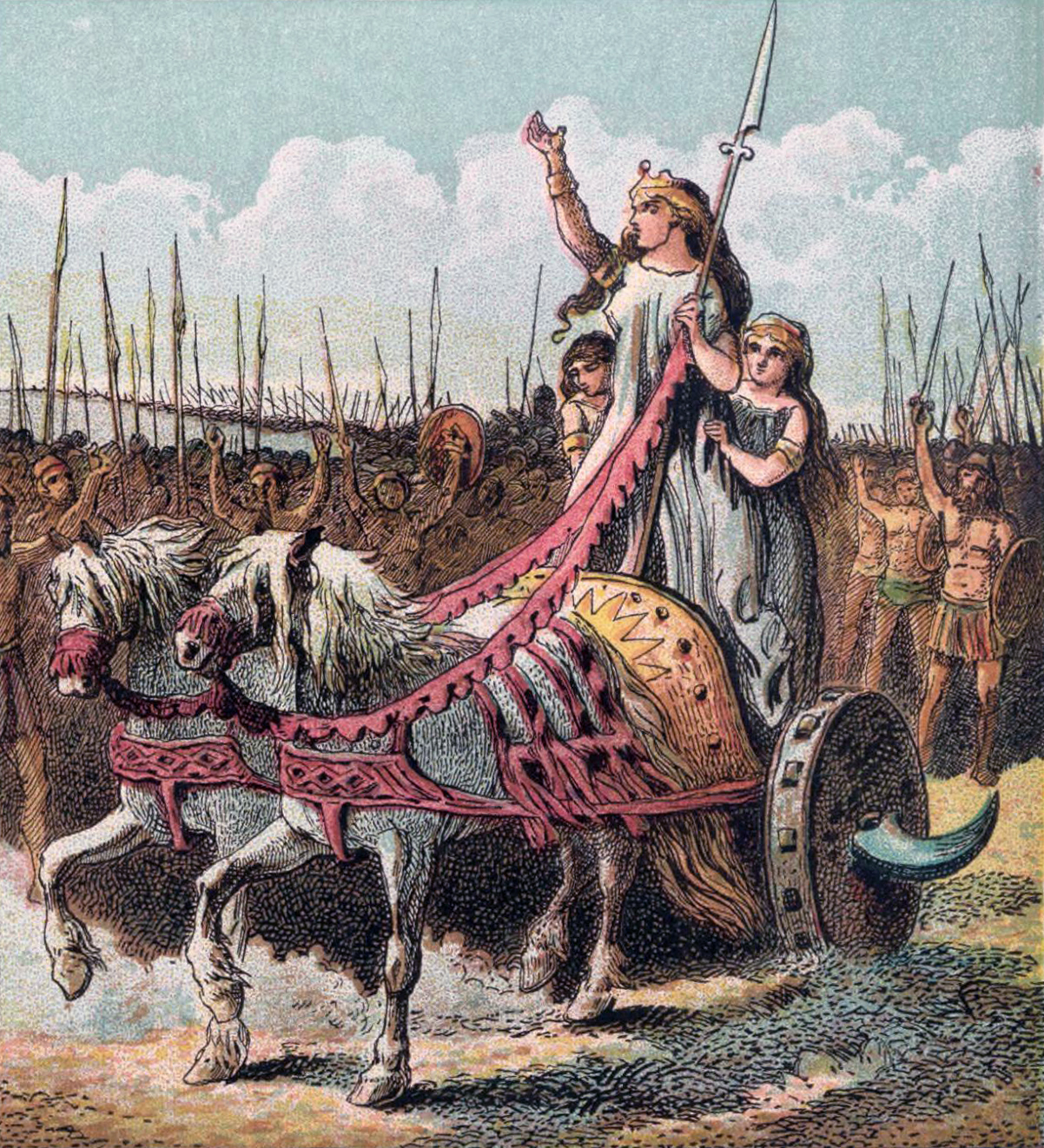 Boadicea, leader of the rebellion against the Romans